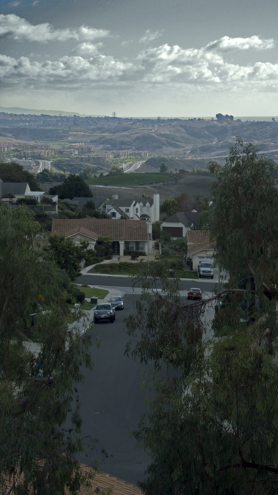 A look into Southwest Carlsbad CA. The larg hill far in the distance is La Jolla CA.